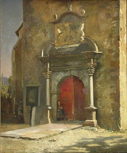 d